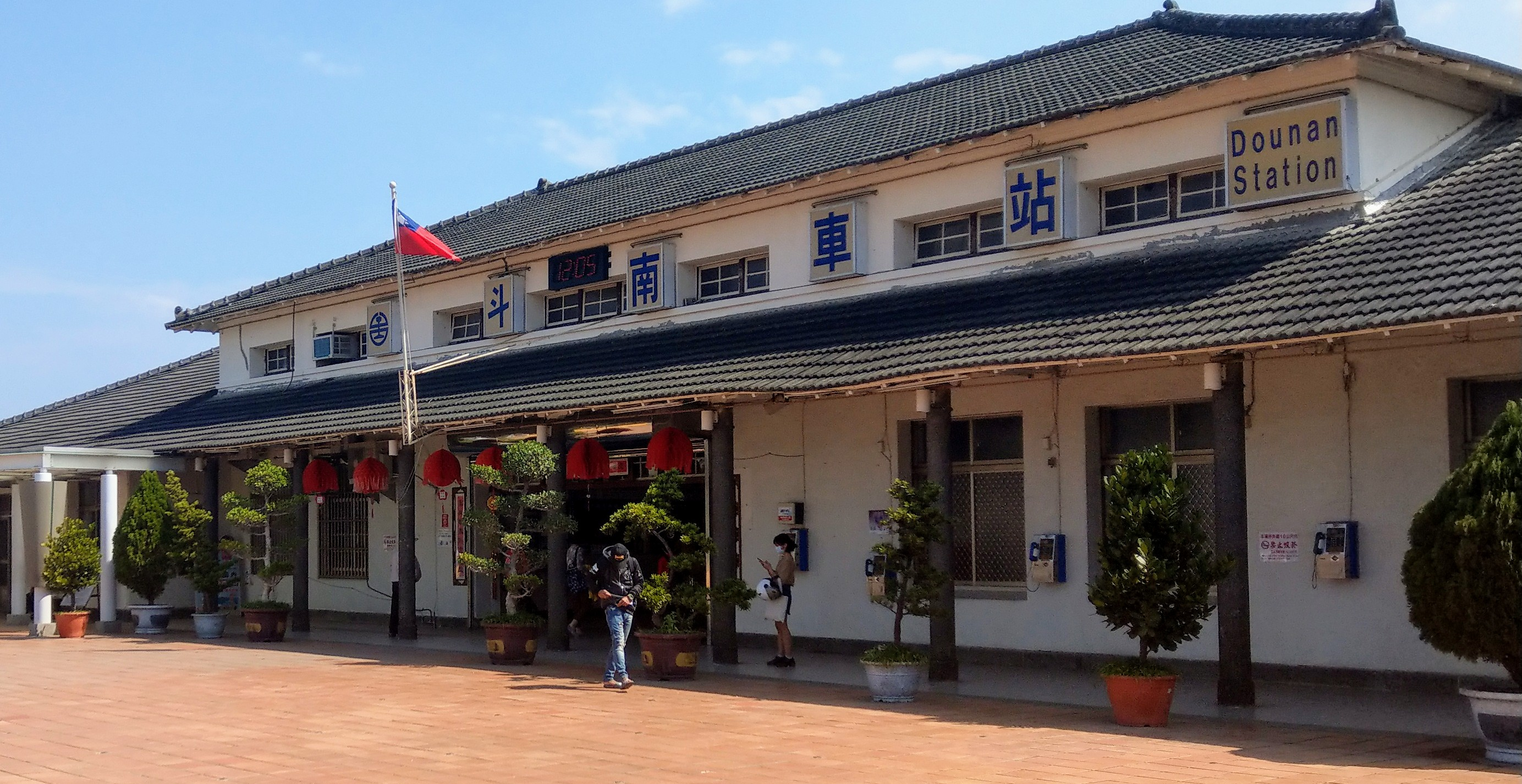 Dounan Station